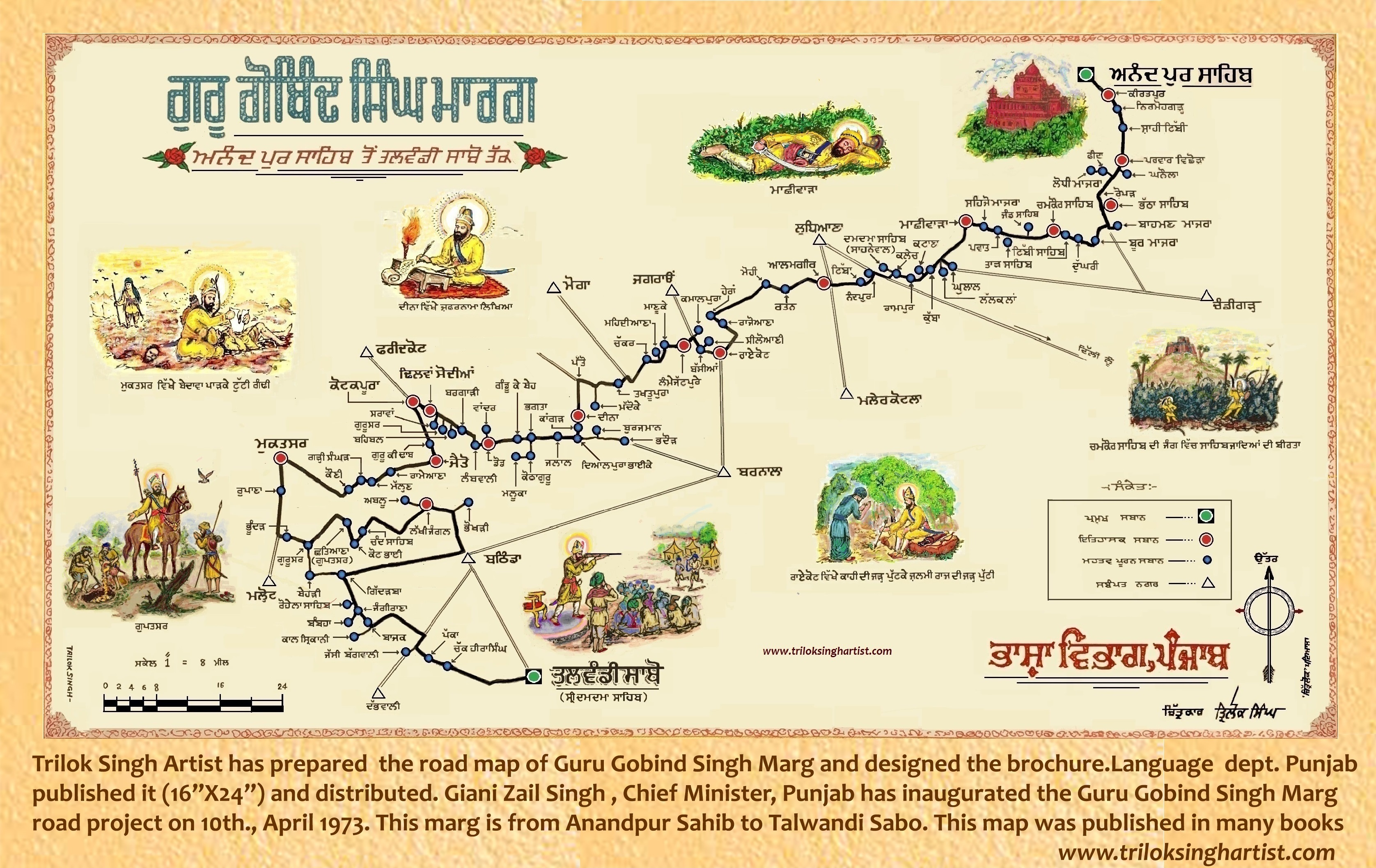 This is the original map of Guru Gobind Singh Marg prepared by Trilok Singh Chitarkar and published by Languages Department, Punjab in the year 1972.